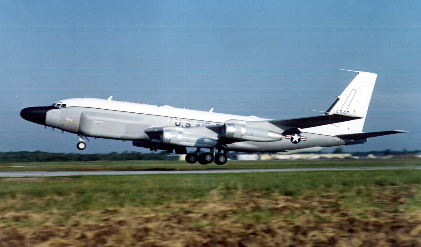 Boeing RC-135V Rivet Joint 64-14842 taking off. Original caption: The hog-nosed RC-135 reconnaissance aircraft, Rivet Joint, with its extensive antennae array, provides vital real-time battle management information to mission planners, commanders and warfighters. The aircraft is a high-altitude version of the C-135, which is a militarized version of the Boeing 707. The Rivet Joint aircraft, owned and operated by the 55th Wing, Offutt Air Force Base, Neb., provides direct, near real-time reconnaissance information and electronic warfare support to theater commanders and combat forces. The Rivet Joint crew consists of members of several 55th Wing squadrons. The pilots, navigators and maintainers are assigned to the 38th Reconnaissance Squadron. The electronic warfare officers, known as Ravens, and inflight maintenance technicians are from the 343rd Reconnaissance Squadron. The 97th Intelligence Squadron makes up the final portion of the crew. (U.S. Air Force photo)